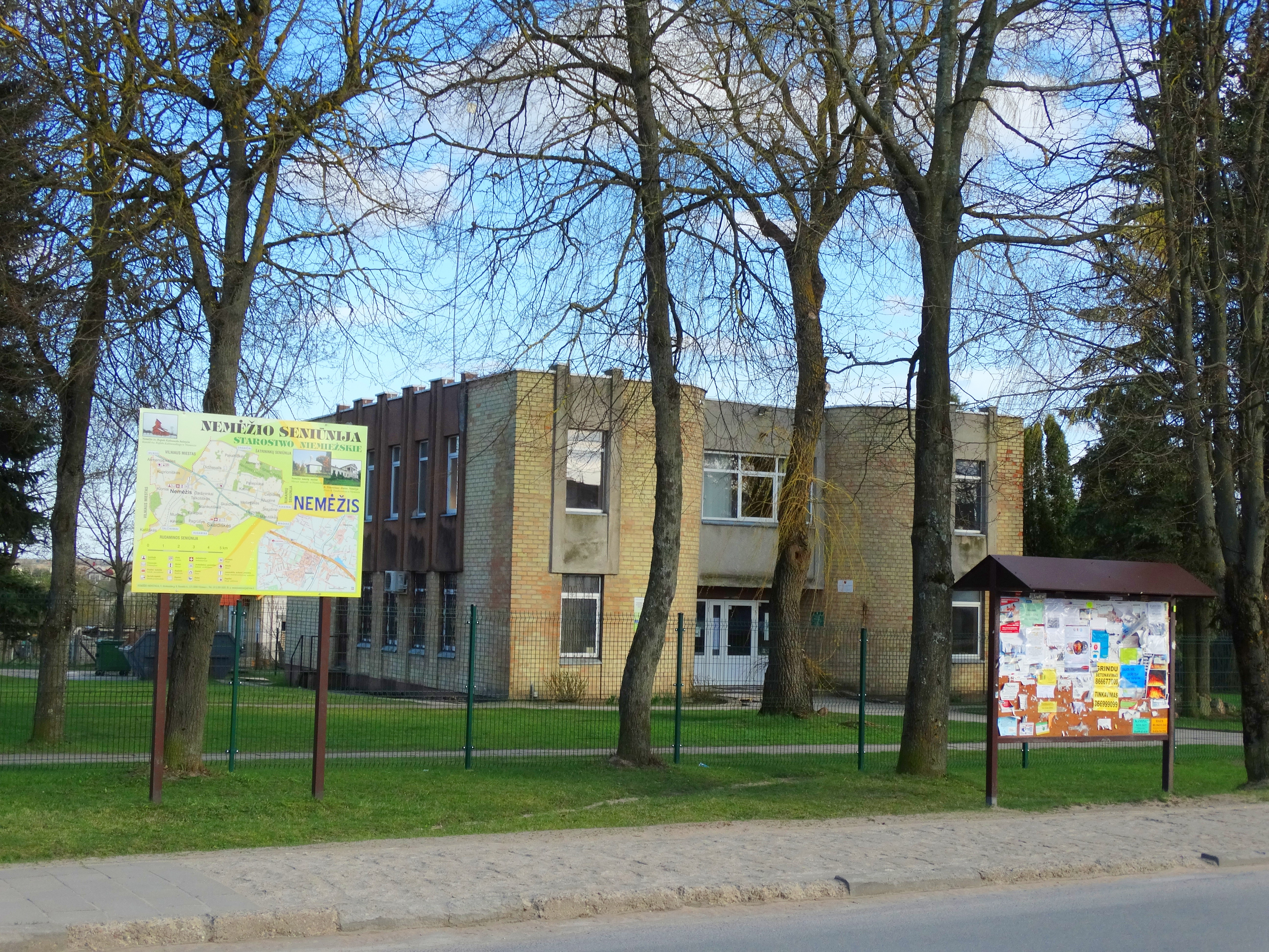 Eldership, Nemėžis, Vilnius district, Lithuania